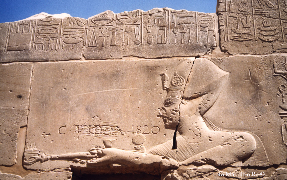 Carlo Vidua's Graffito at Sethi temple